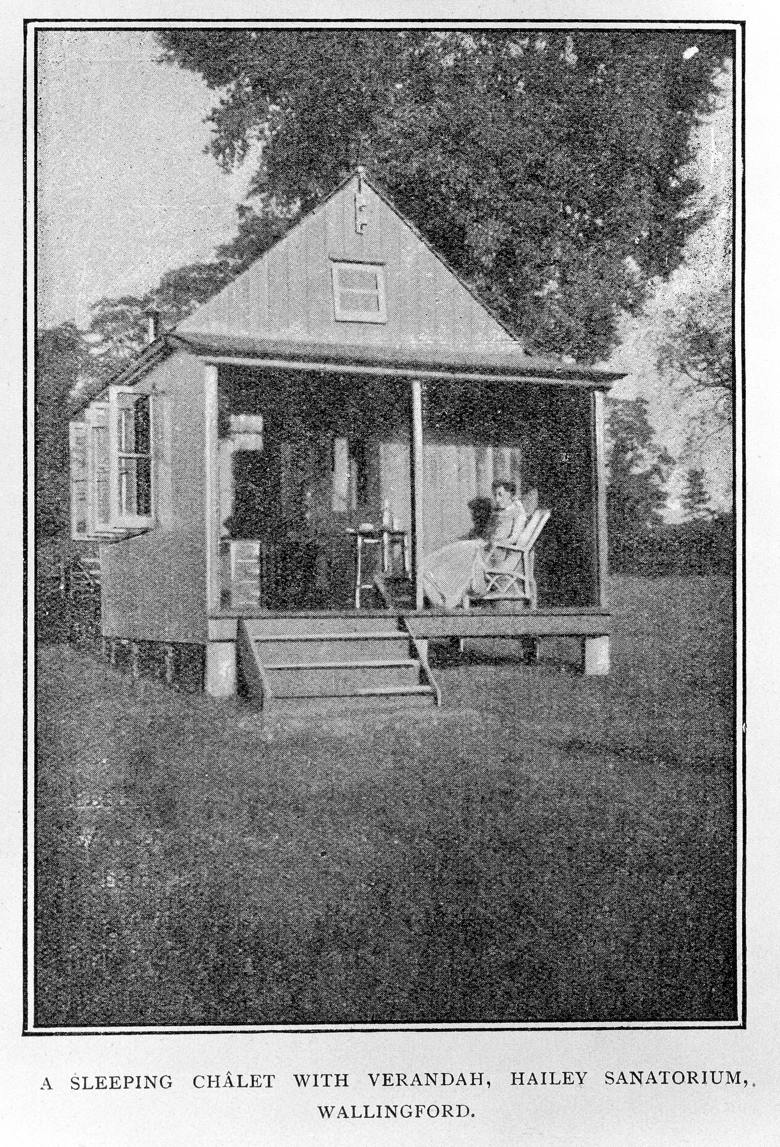 A sleeping chalet with verandah, Hailey Sanatorium, Wallingford. Rare Books Keywords: CONSUMPTION; sanitorium; Tuberculosis; Economics